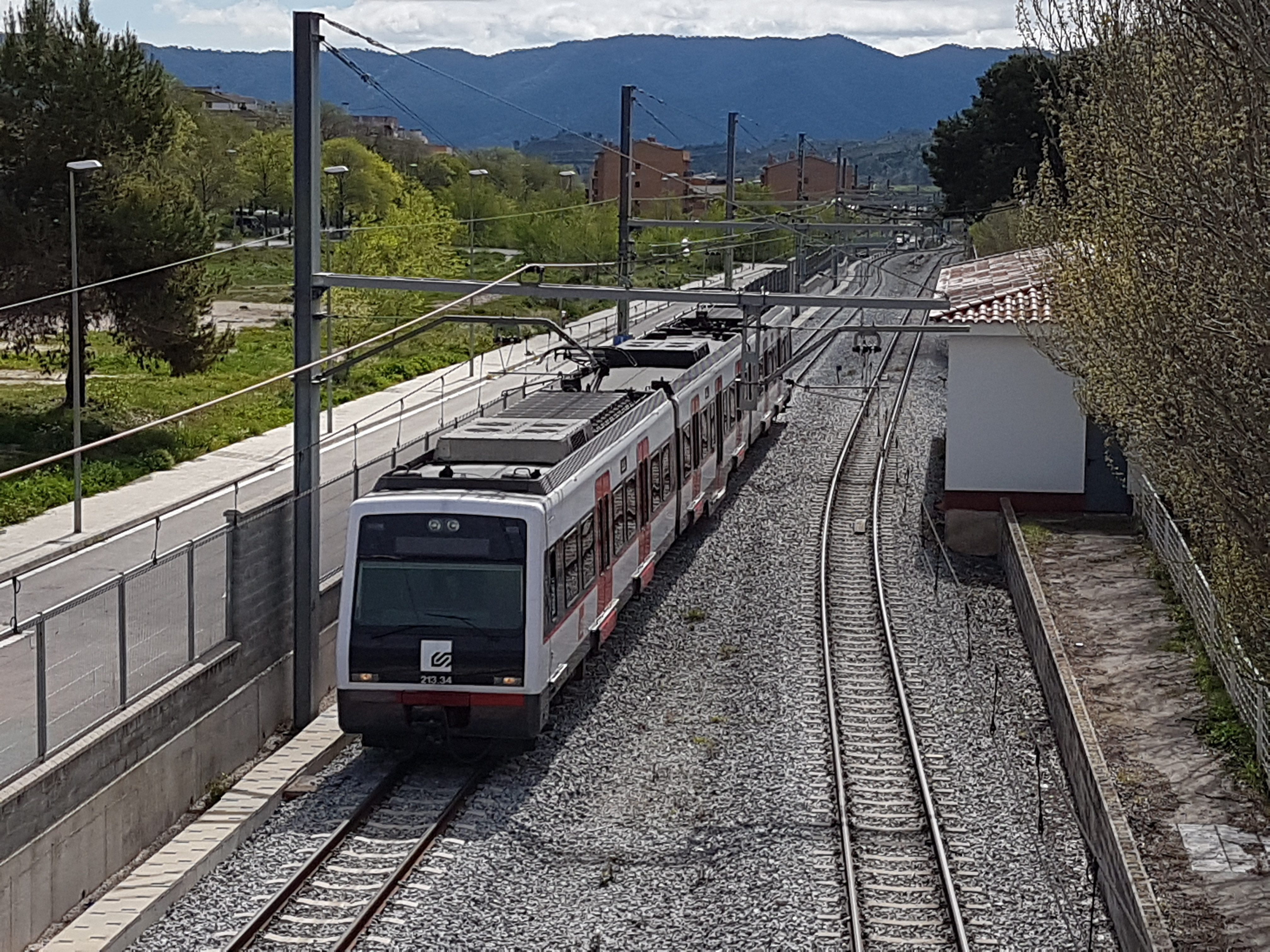 Aproximació de tren de la sèrie 213 a l'estació de Vilanova del Camí